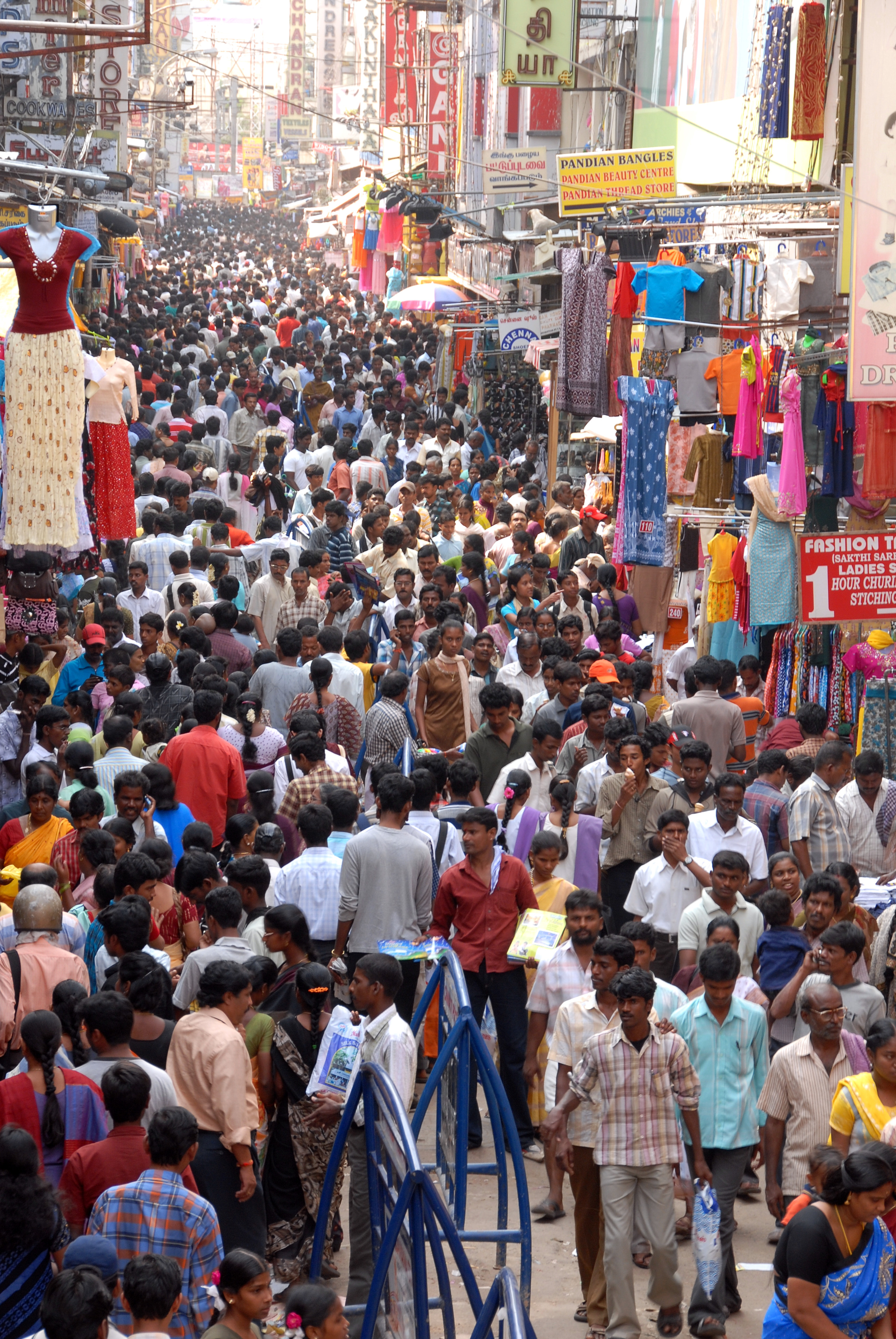 This Ranganathan Street Photo taken from the top of a police control booth situated at the street's end.